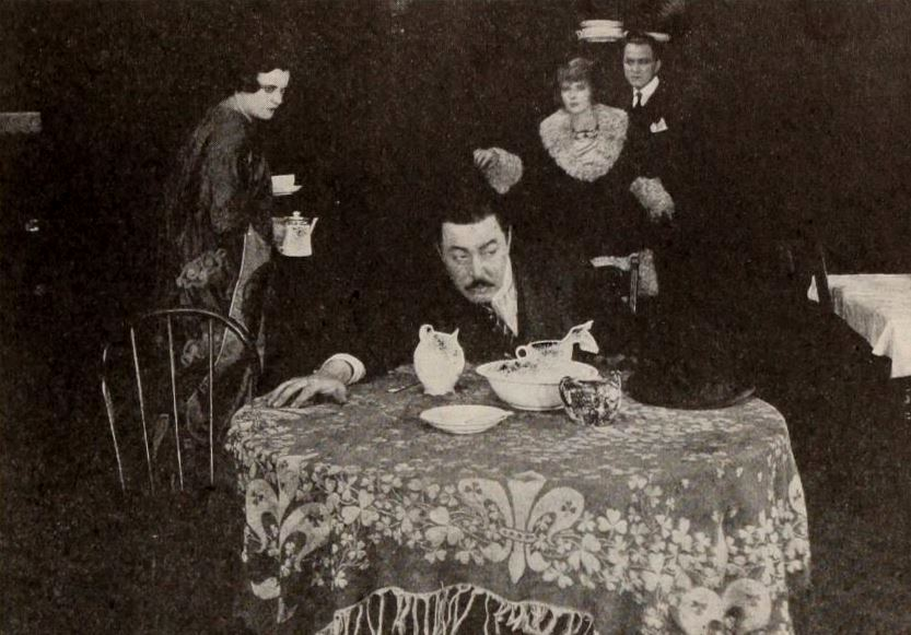 Still from Episode 10, "The Baited Trap," of the American film serial The Lightning Raider (1919) with Warner Oland at the table and Pearl White and Henry G. Sell in the background, on page 45 of the March 29, 1919 Exhibitors Herald.